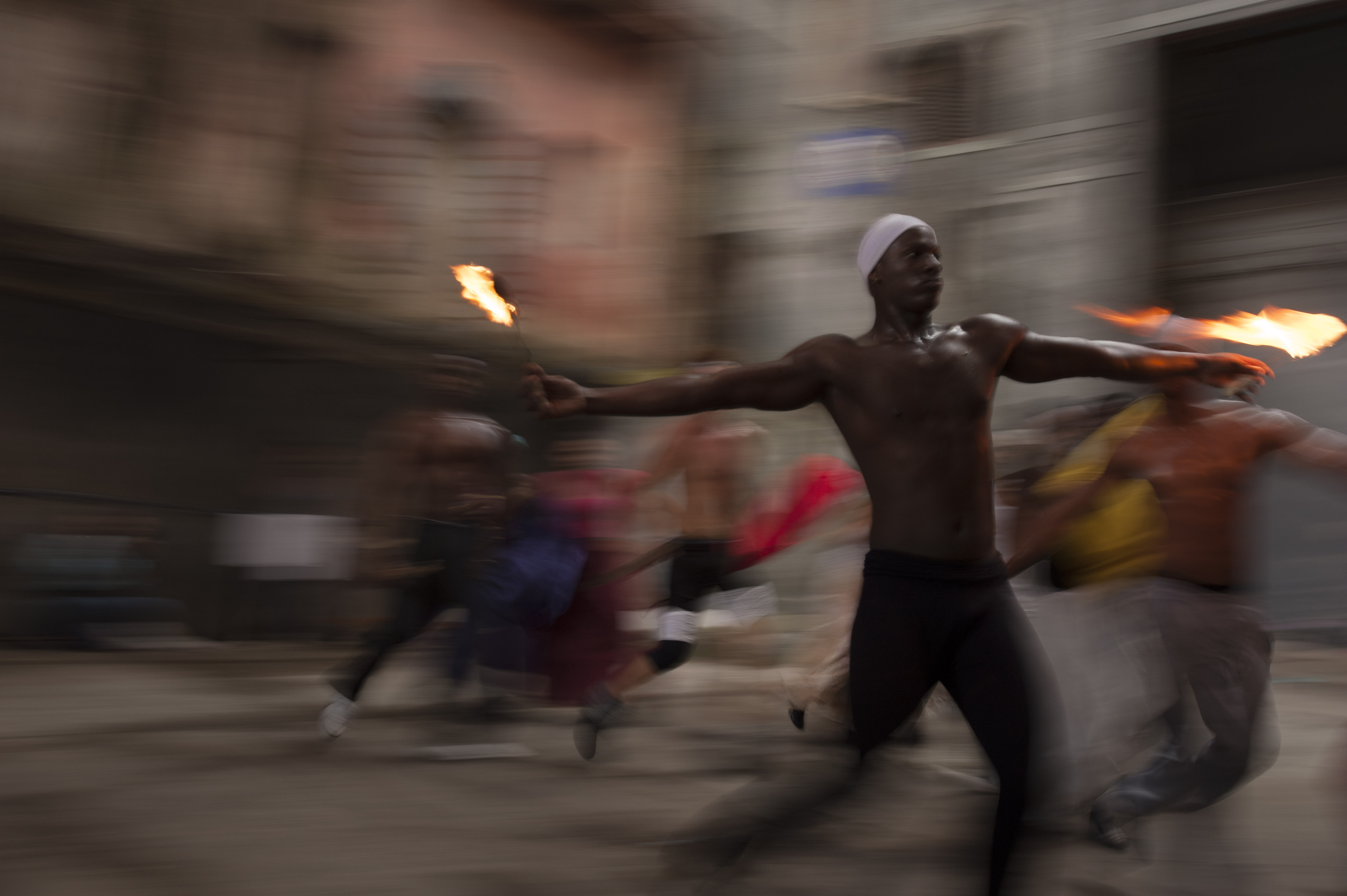 Banrarra Afro-Cuban dance troupe, Jan 2014, image by Marjorie Kaufman